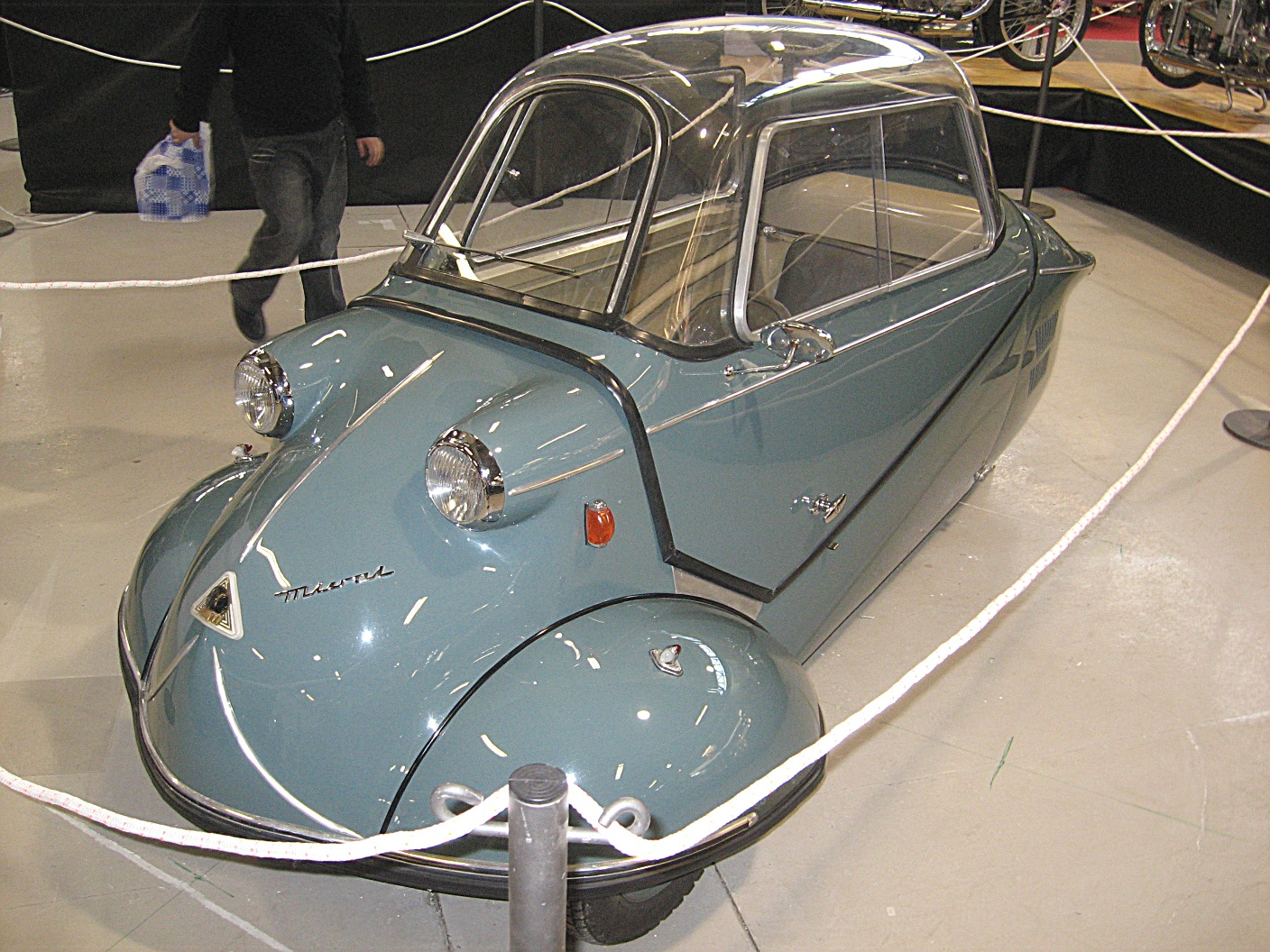 Subject:Mival Mivalino Author:Luc106 Date:March 15th, 2007 Event:Old Timer Show 2008 Place/Country: Forlì, Italy I release all rights in the public domain.